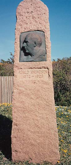 Roald Amundsen — bronze relief by Sigvald Asbjornsen, on a granite obelisk. In Golden Gate Park, San Francisco, California.